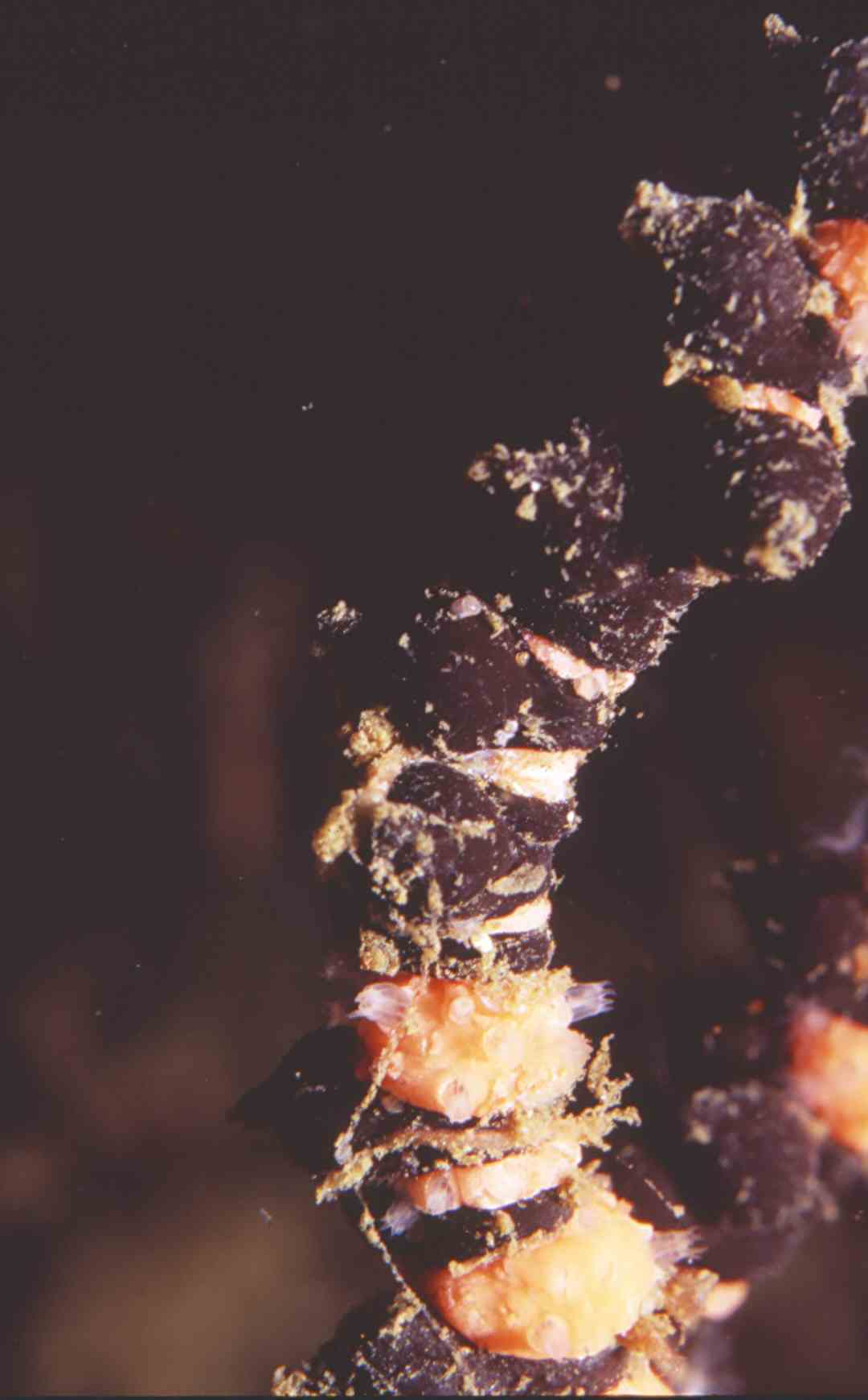 A photograph of the eggs of the South African common cuttlefish, Sepia (sepia) vermiculata taken in 20m of water in False Bay off Cape Town using a Nikonos V camera. Eggs size about 3mm diameter.